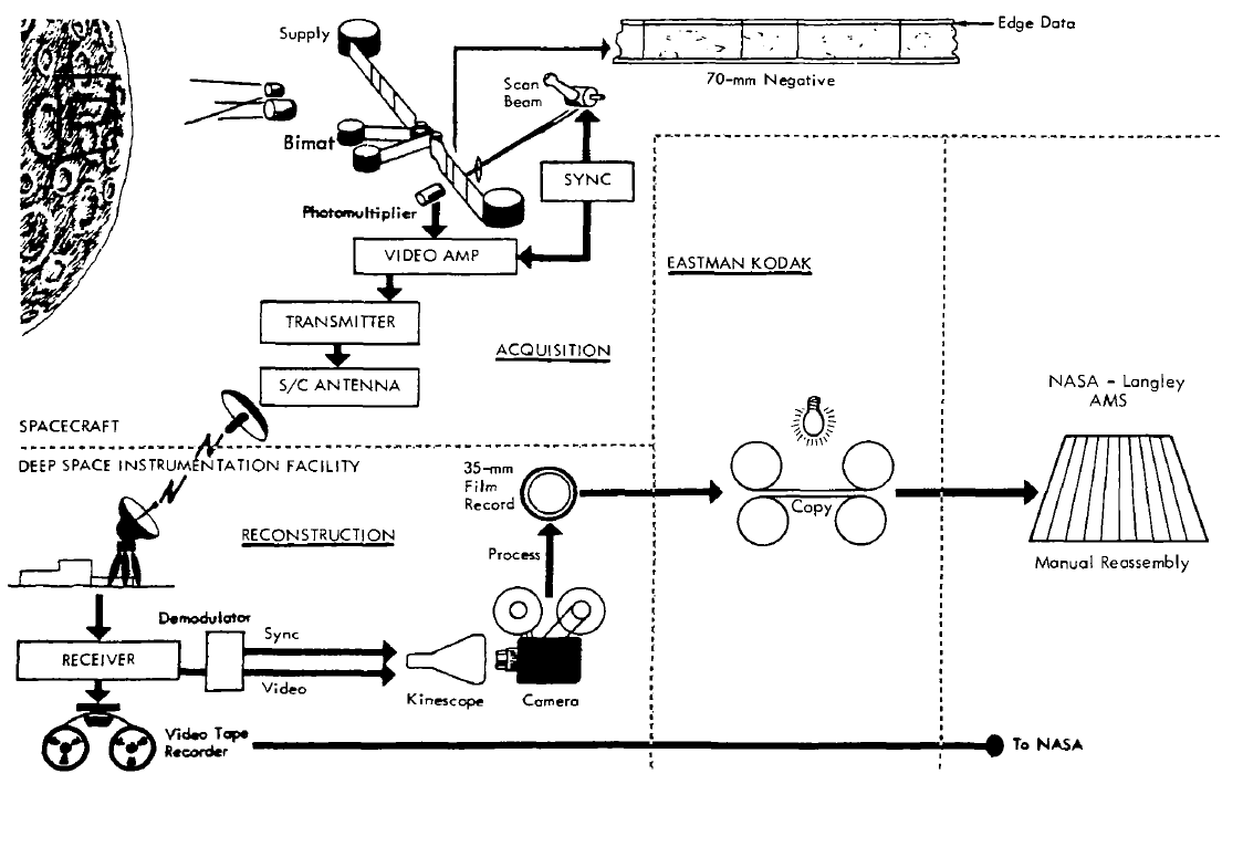 Lunar Orbiter photographic process